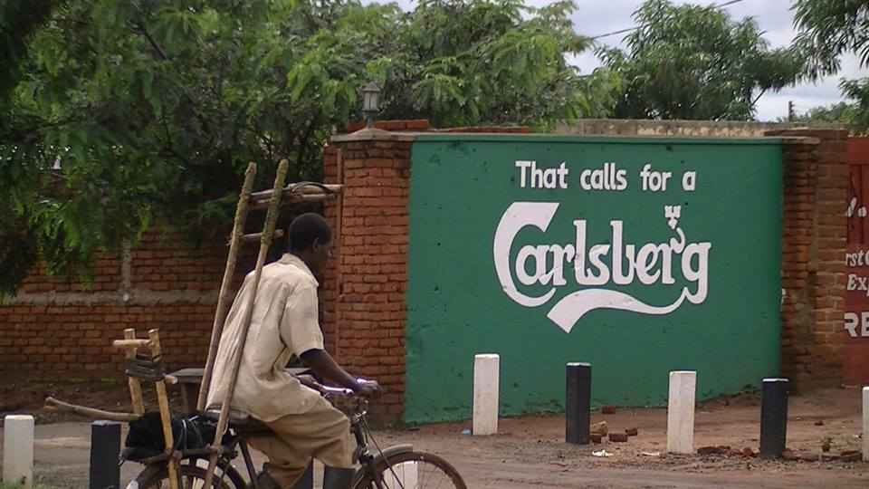 A man on his bike in Malawi. Behind him, you can see a billboard for a beer-loyalty. It's a good example of globalization in Malawi.